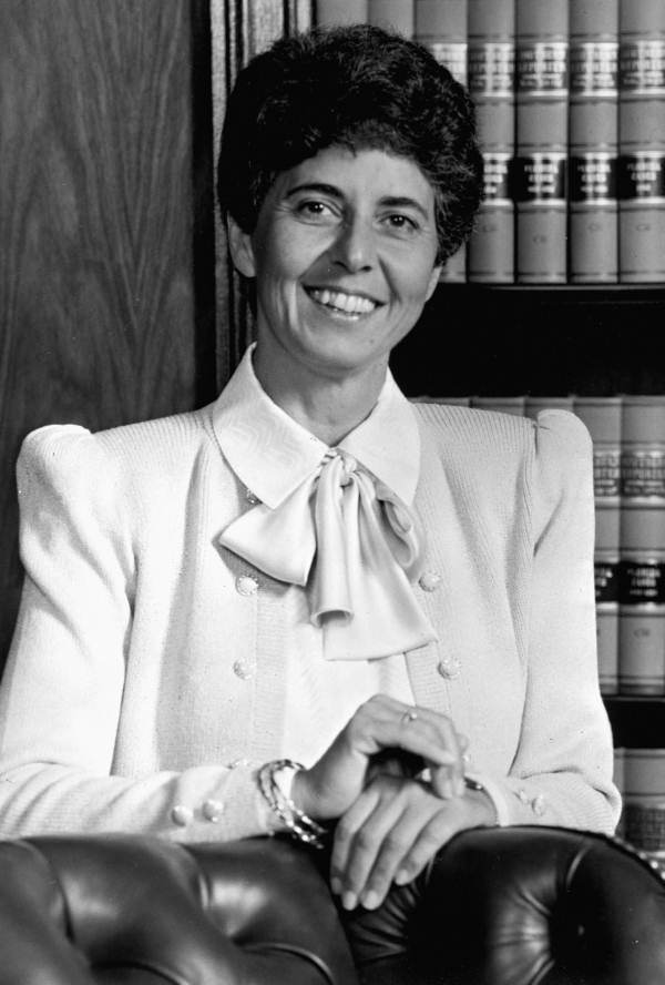 Florida Spureme Court Justice Rosemary Barkett